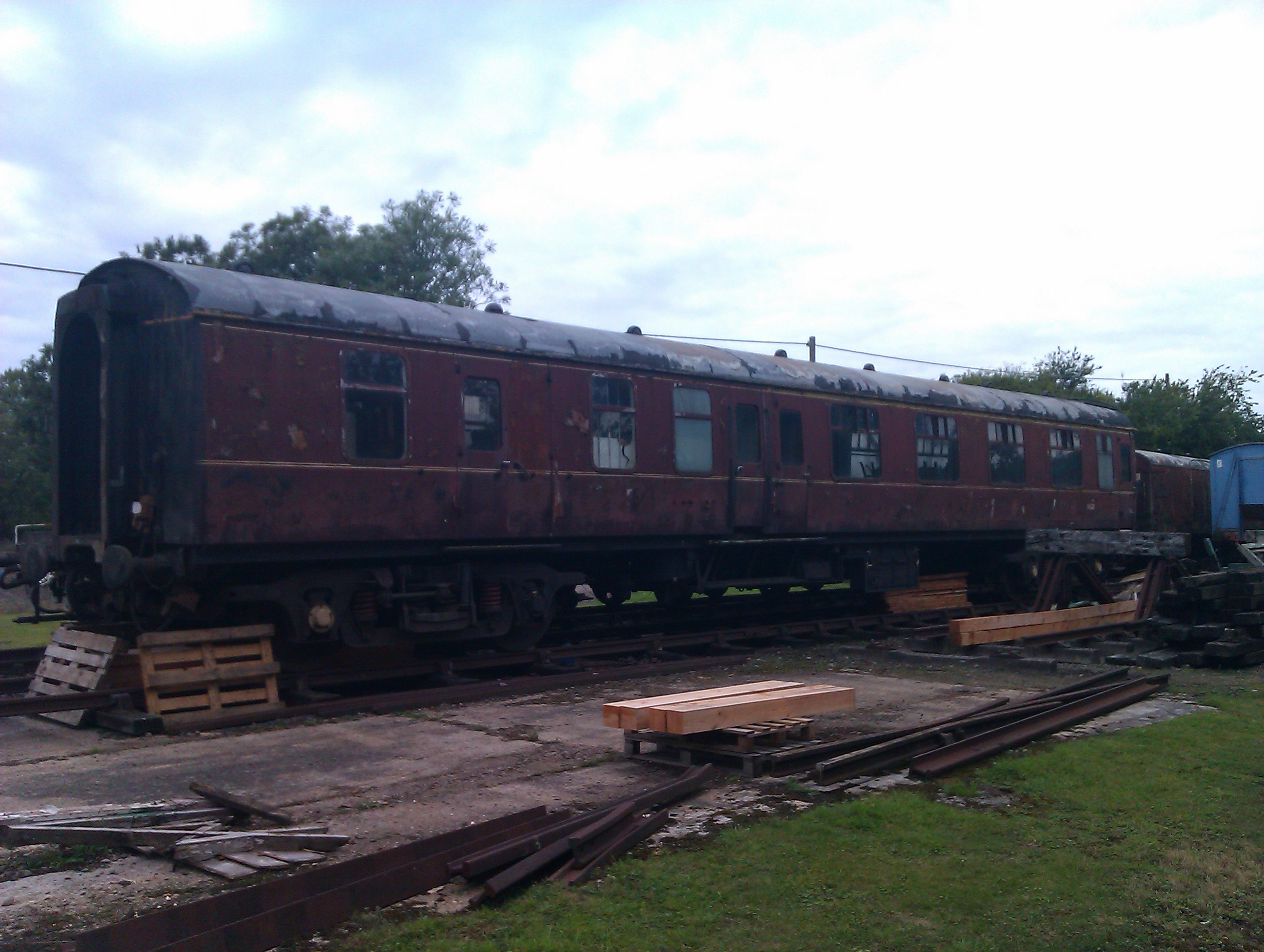 BR Mk1 14021 stored in the yard at Hardingham, Norfolk